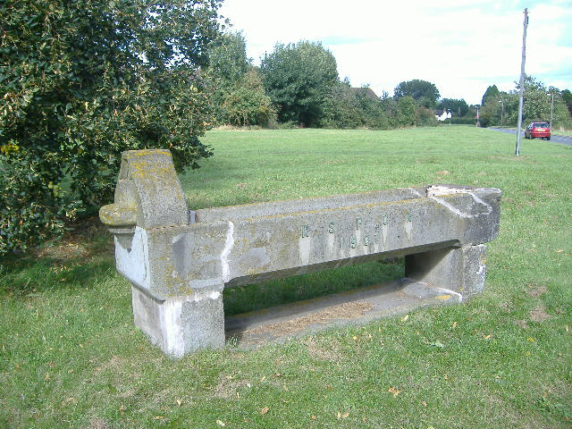 An horse/cattle trough in Barnards Green, Malvern, Worcestershire, England.